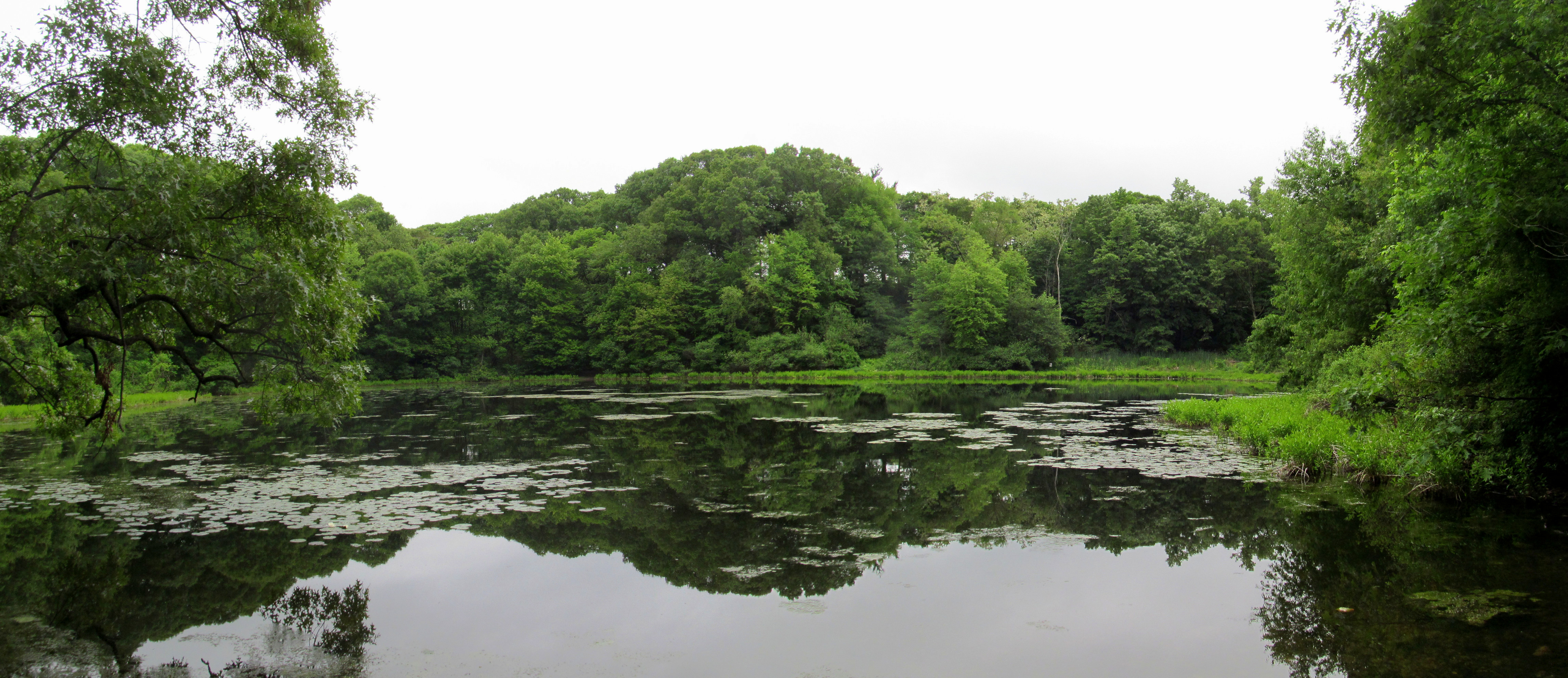 Wards Pond in June 2014